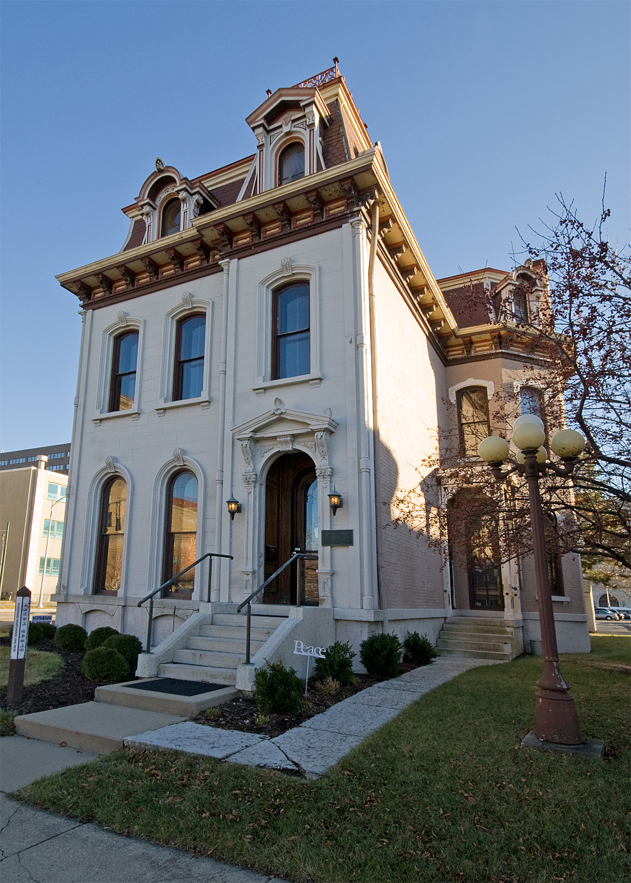 Isaac Pollack House in Dayton, OH. Moved from original site to 208 West Monument Avenue and is now home of the Dayton International Peace Museum [1]. Photo by Greg Hume